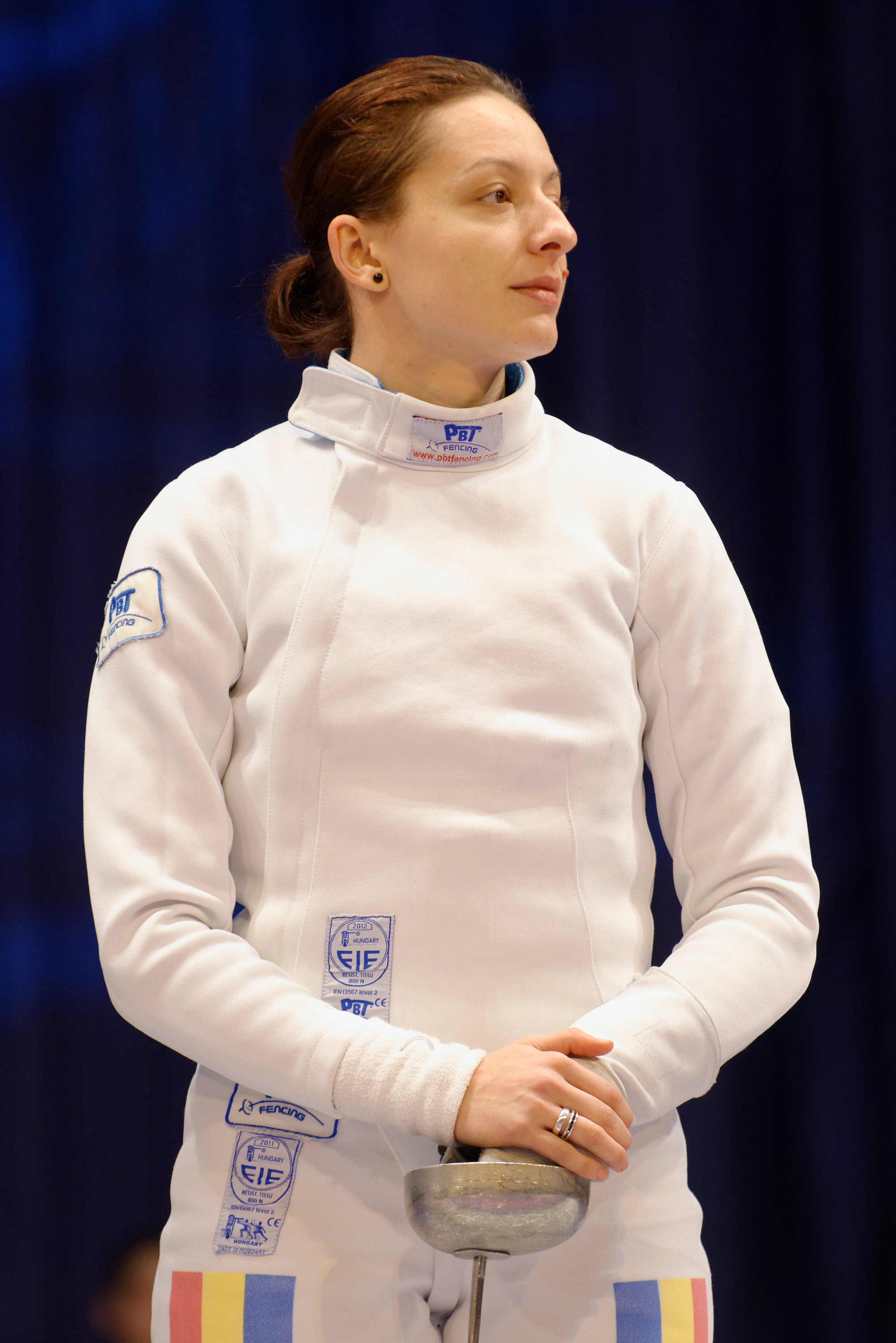 Ana Maria Brânză at the Challenge international de Saint-Maur 2013, women's épée World Cup tournament.